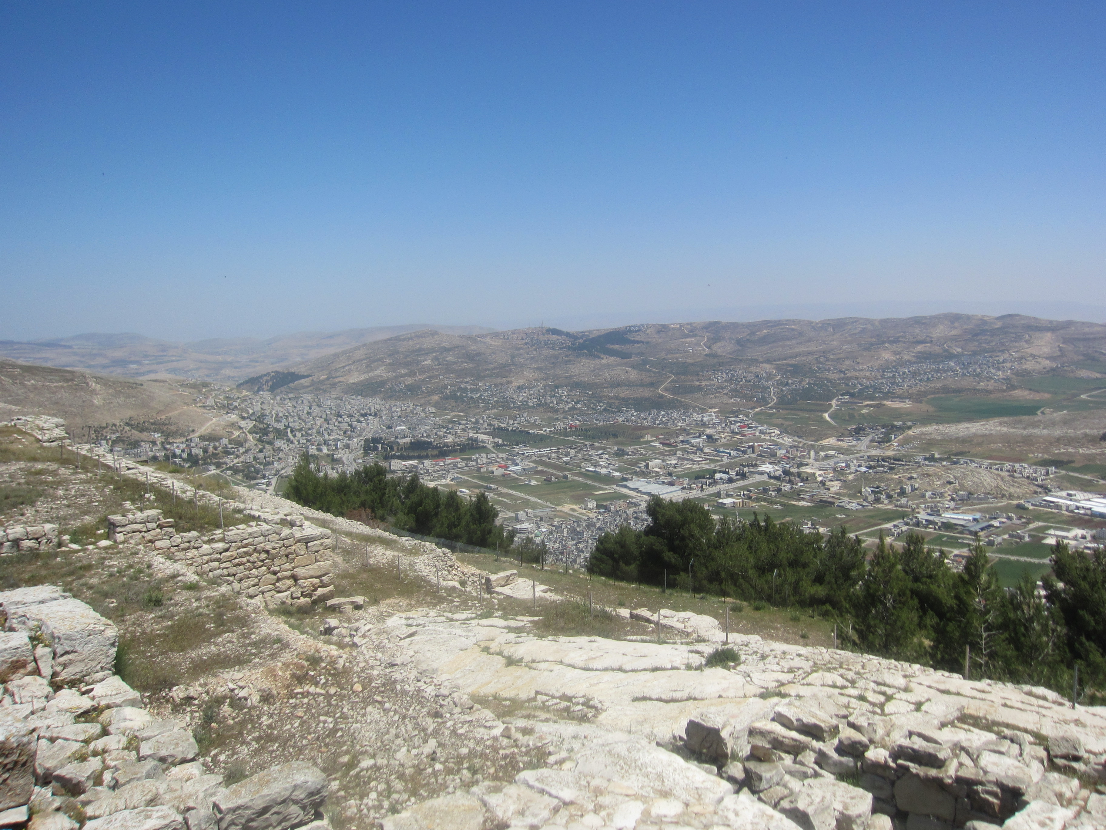 view from Mount Gerizim. Peeking between the trees is Balata. to its left is the eastern part of Shchem. On the fart right is Salim. To its left is Deir al-Hatab. To its left far up on the mountain is Elon Moreh. Beneath Elon Moreh is Azmut.